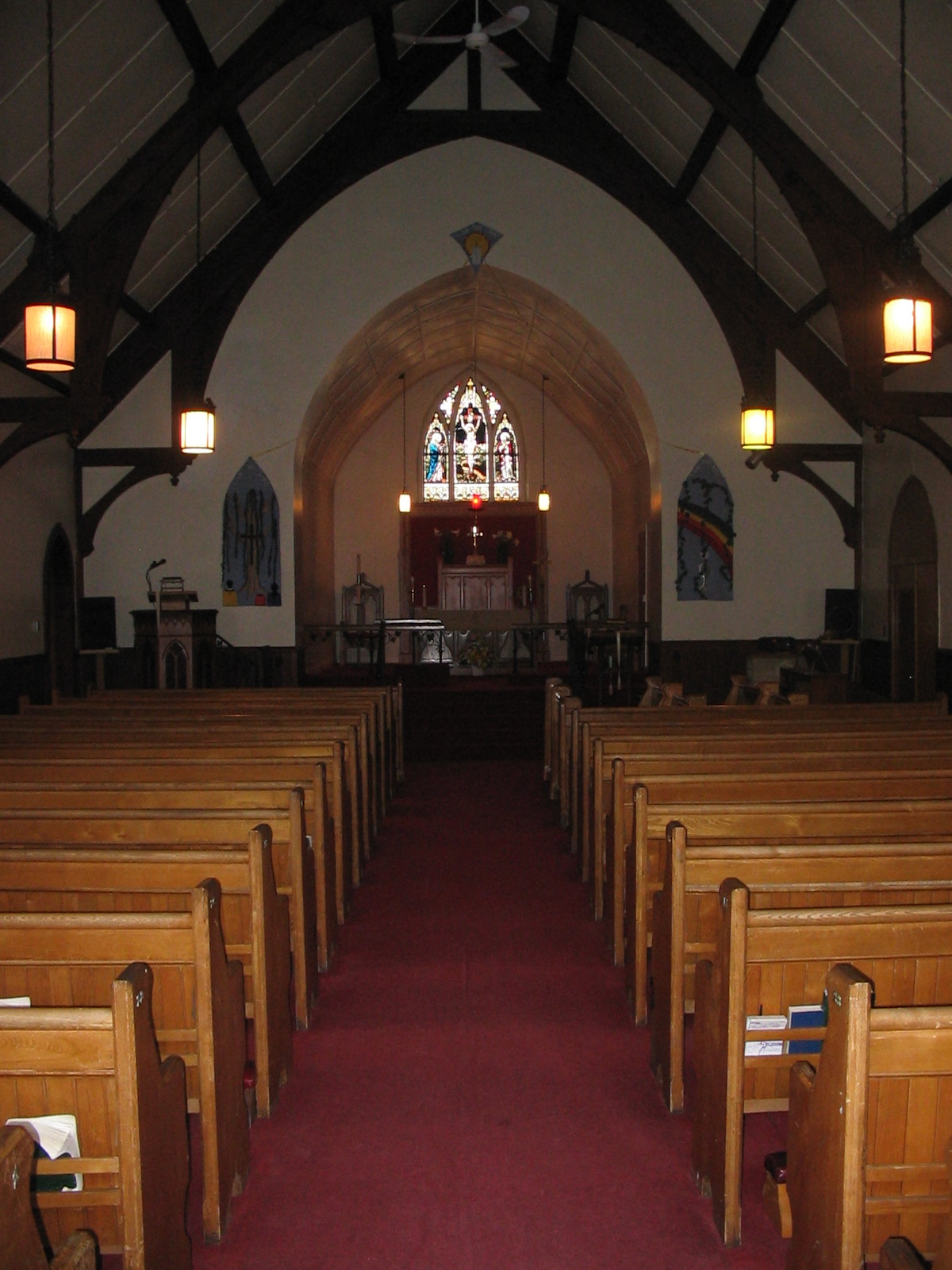 Interior of St. Stephen's Anglican Church, Buckingham, PQ